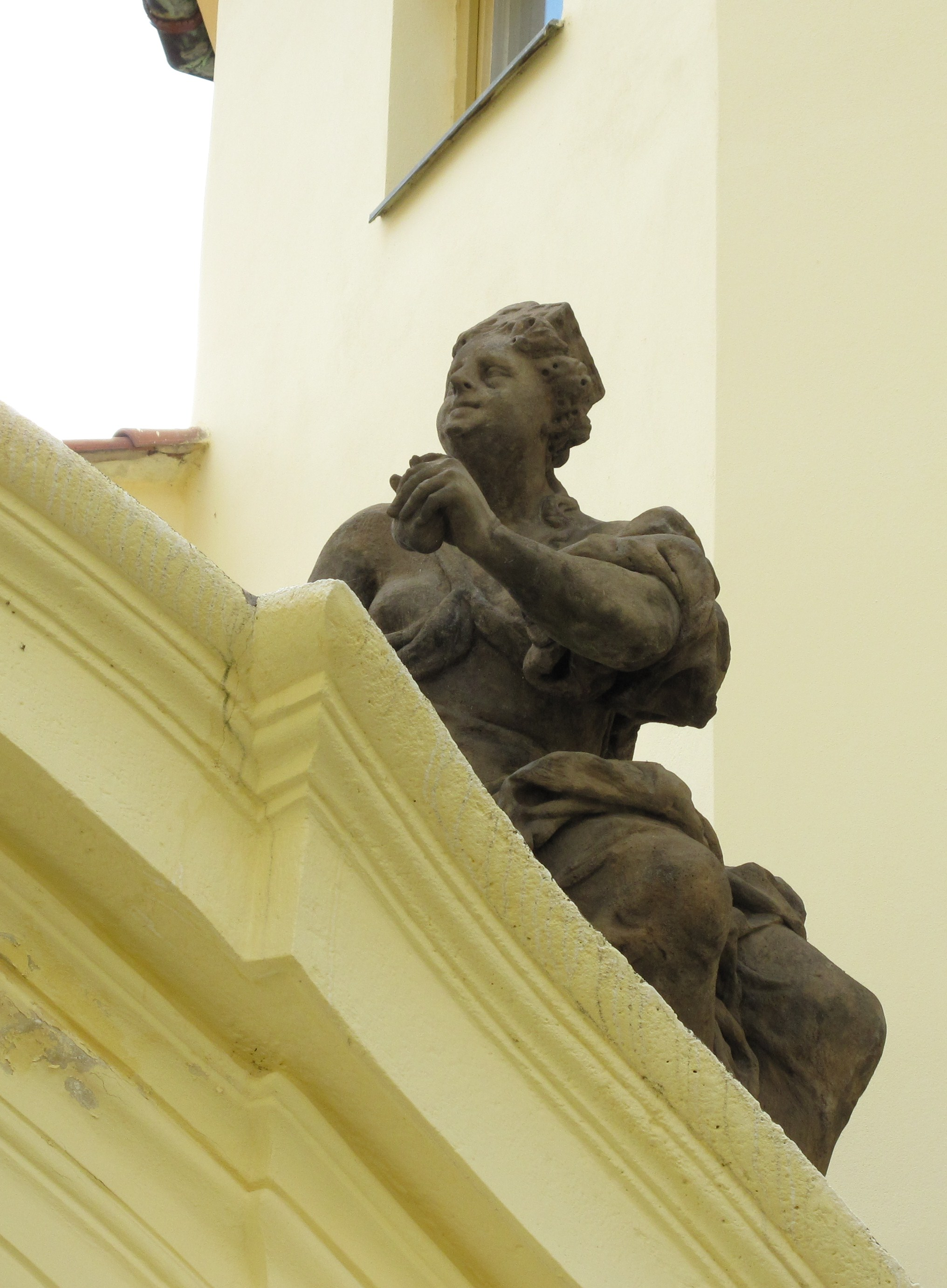 Bohatství scupture on Vrtbovská zahrada entrance gate by Matyáš Bernard Braun (1684–1738), Prague, Czech Republic.